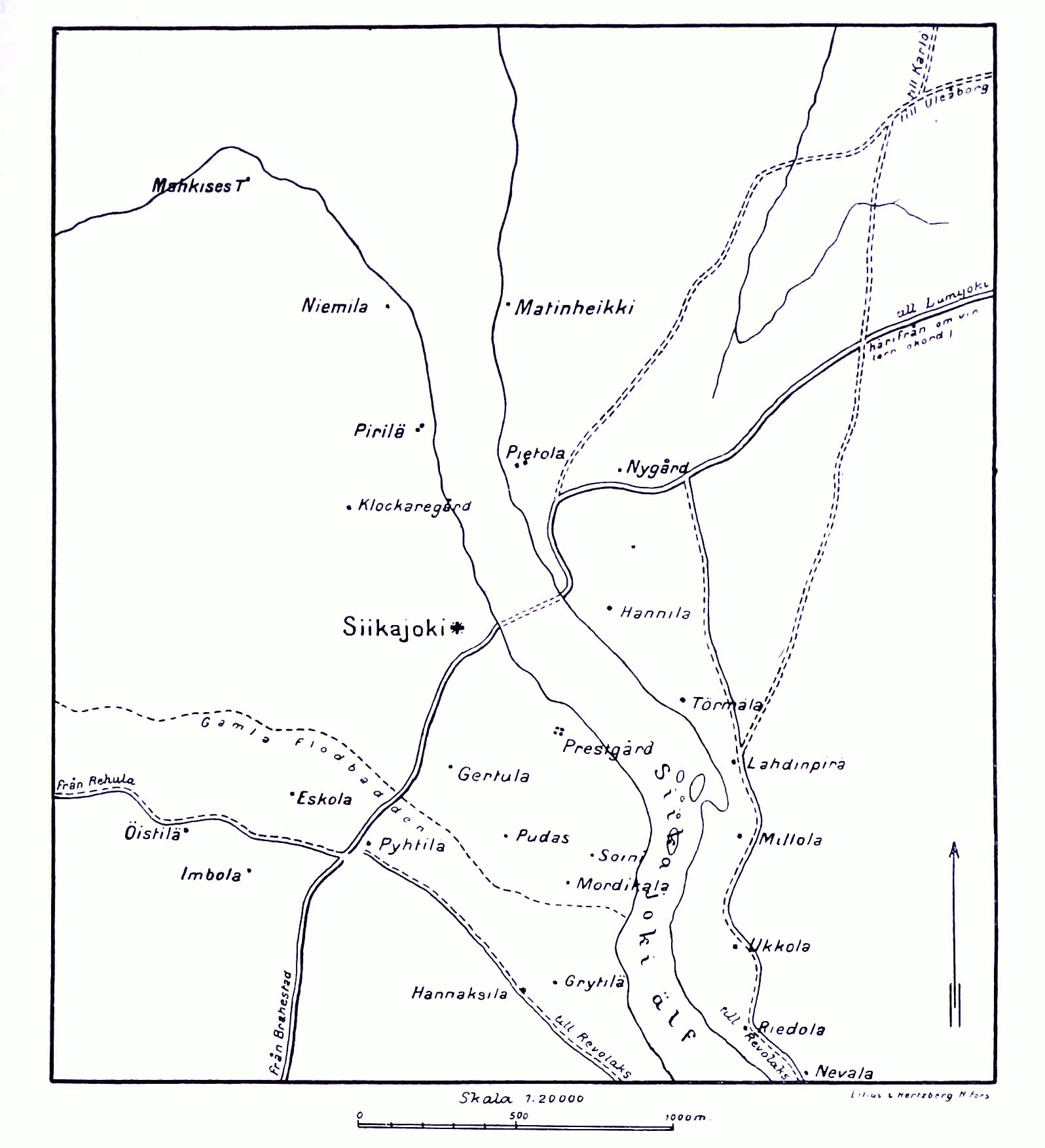 Map of the Battle of Siikajoki